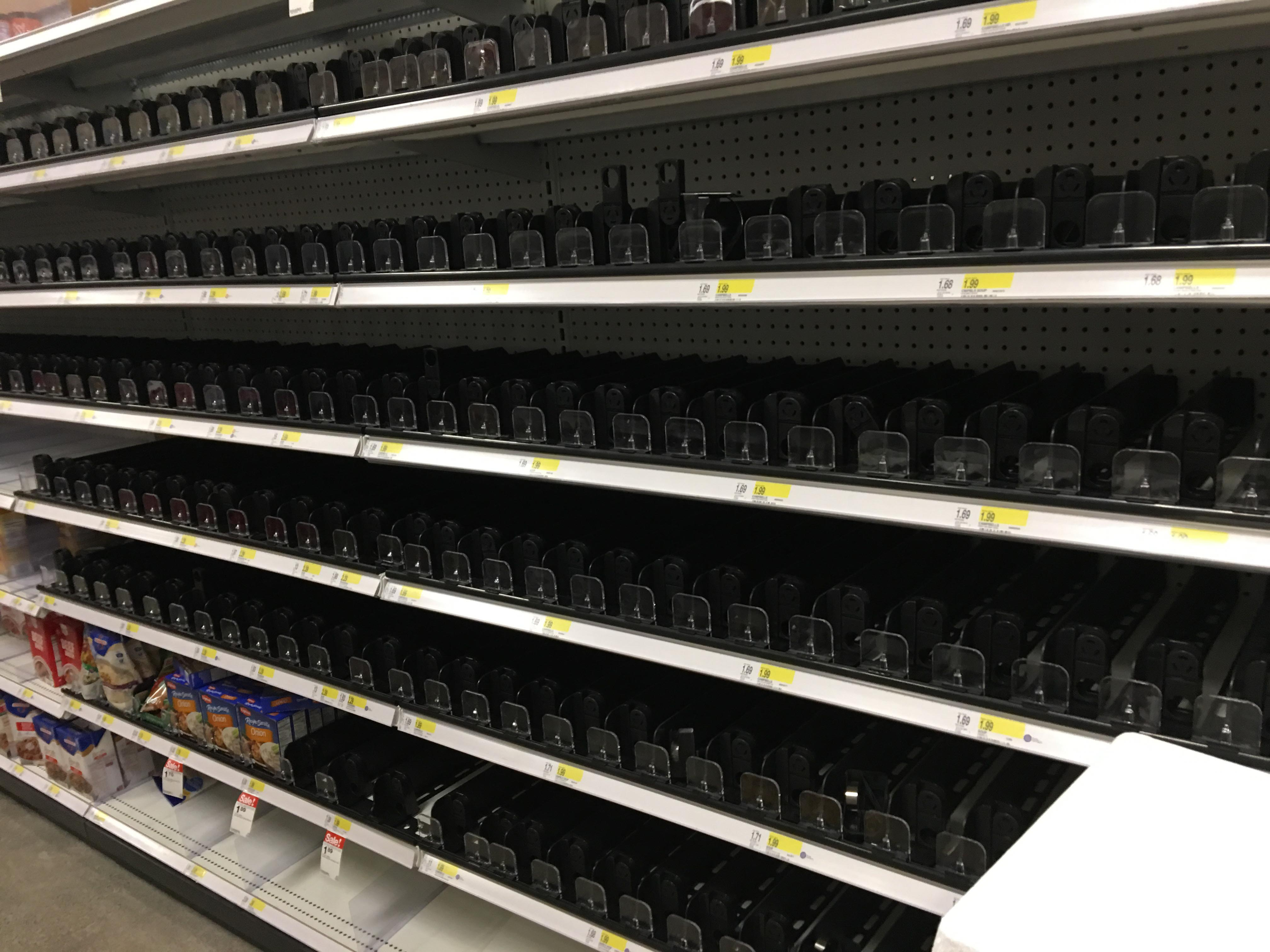 Almost no soup here!